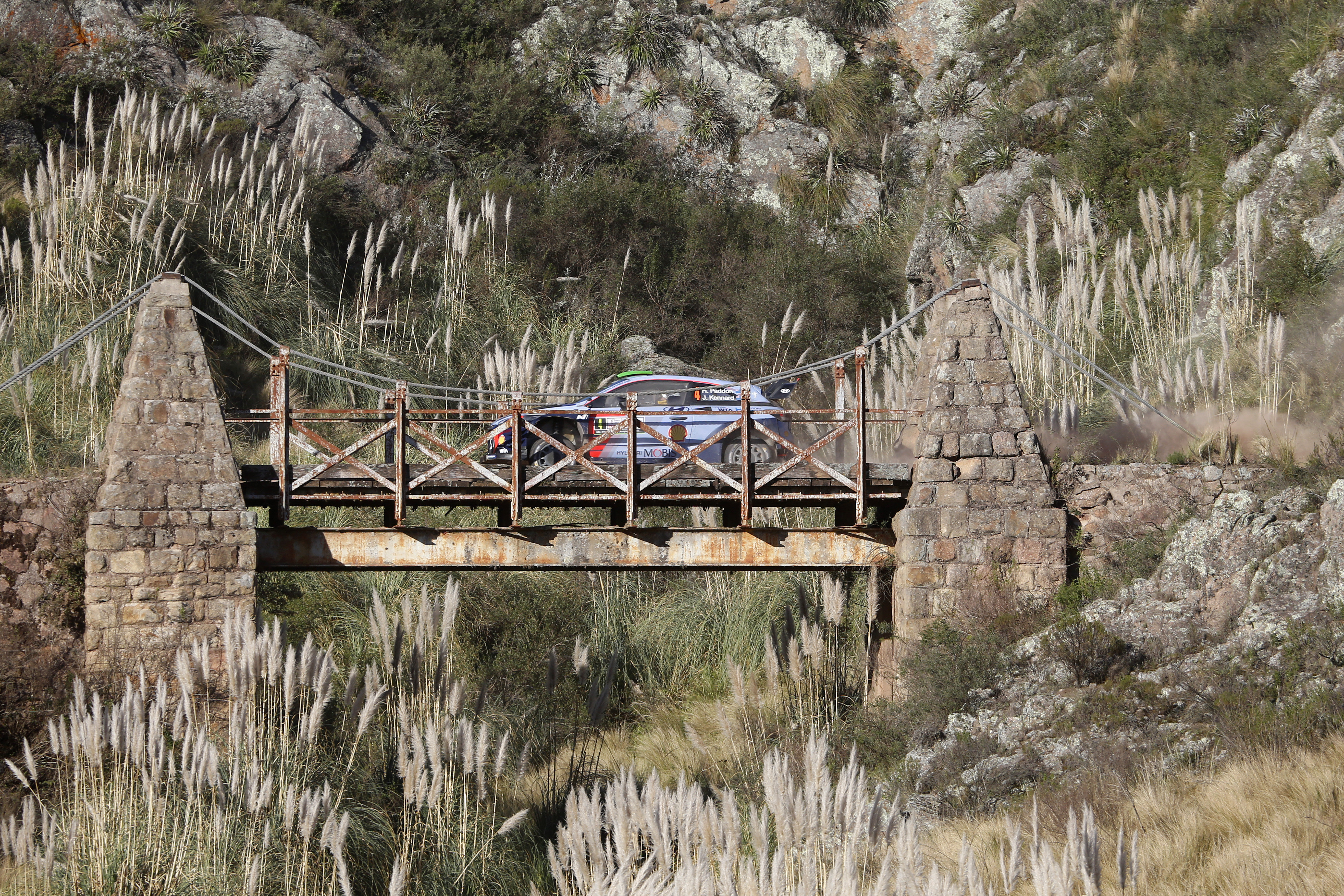 Hayden Paddon on a bridge during Rally Argentina 2017